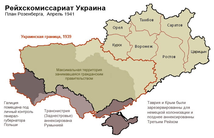 The map of Reichskommissariat Ukraine